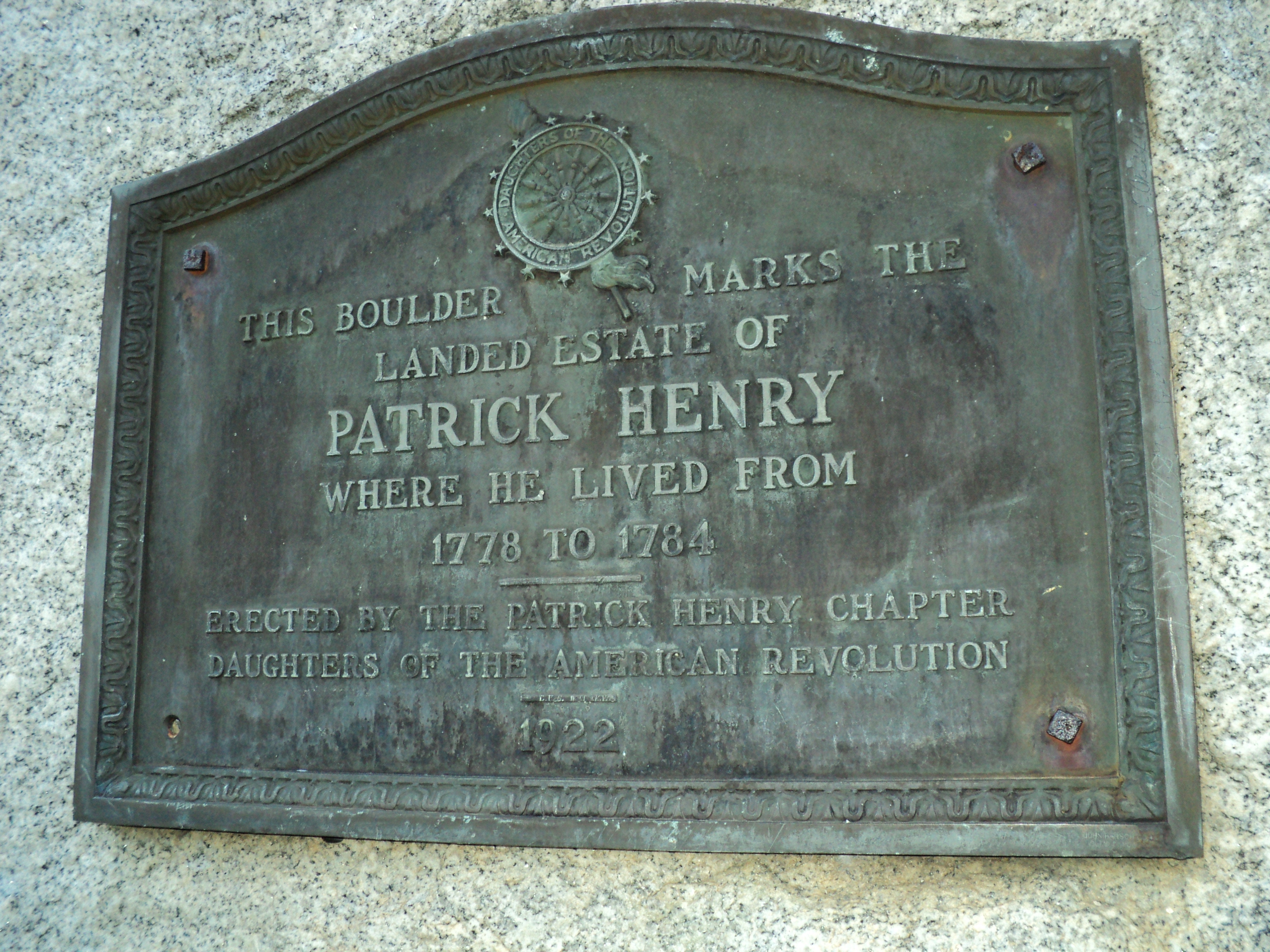 Marker on stone monument to Virginia patriot Patrick Henry at the location of his plantation in Henry County, Virginia, where he lived from 1778–1784.